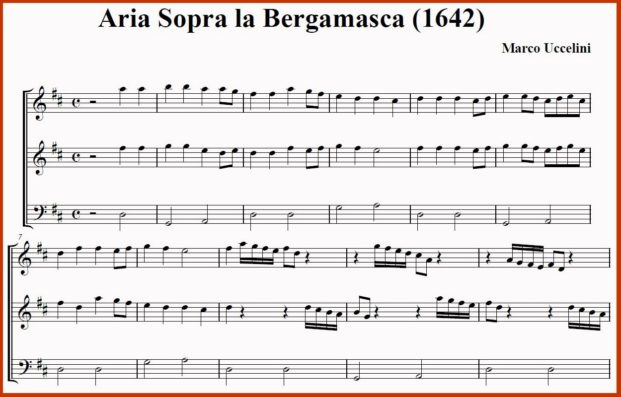 Marco Uccellini – Aria Sopra la Bergamasca (1642)